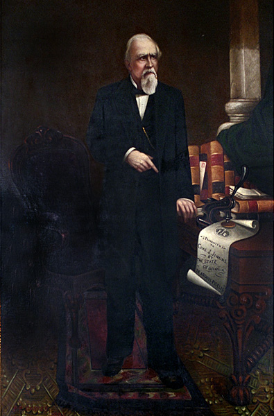 From